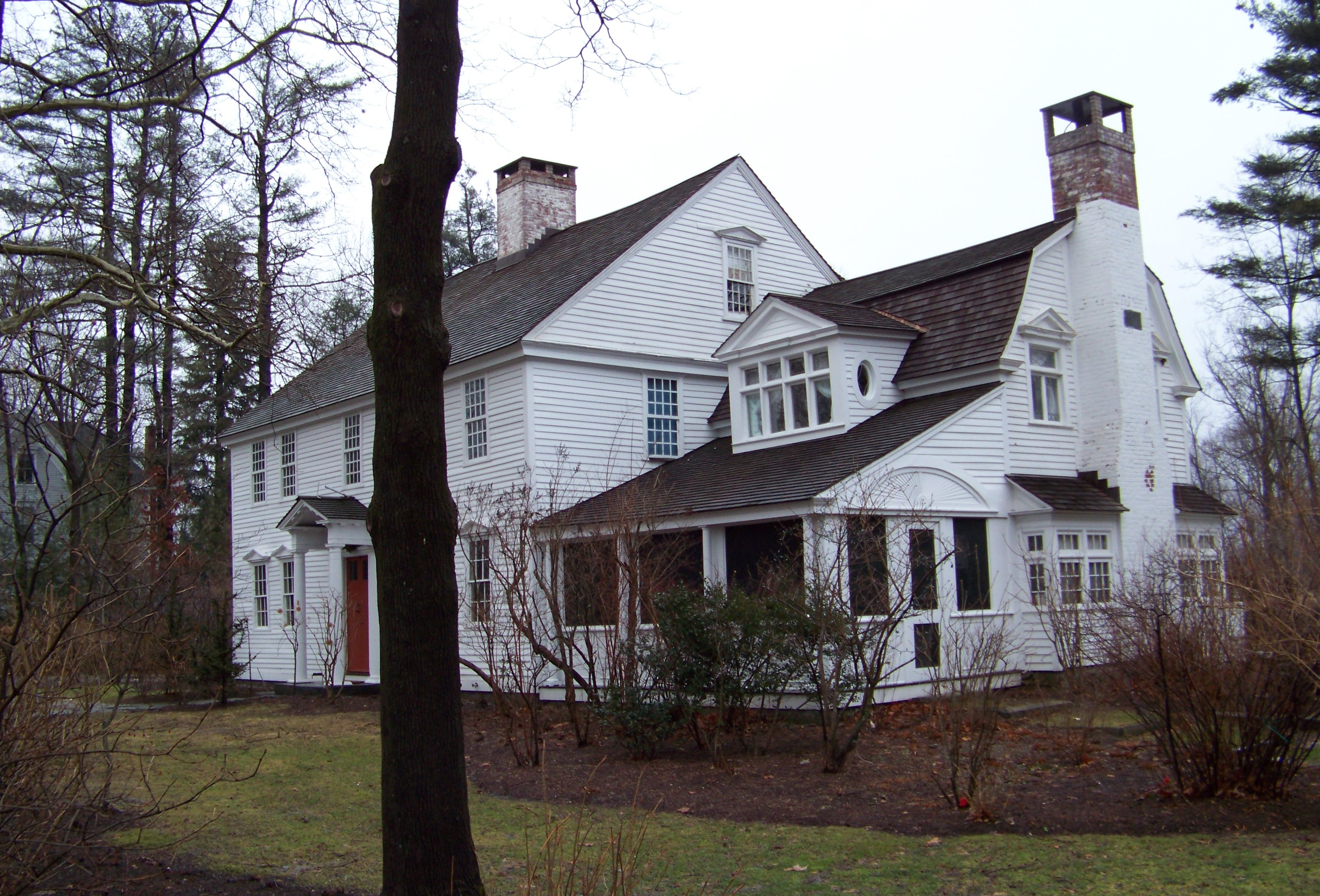 Oliver Wolcott House, South Street (east side), Litchfield, Connecticut